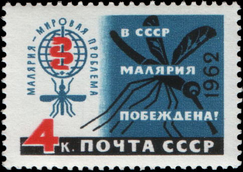 Stamp of USSR, number 2855. Painter - Ye. Aniskin